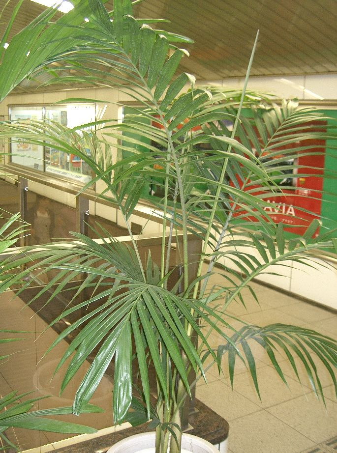 Archontophoenix alexandrae